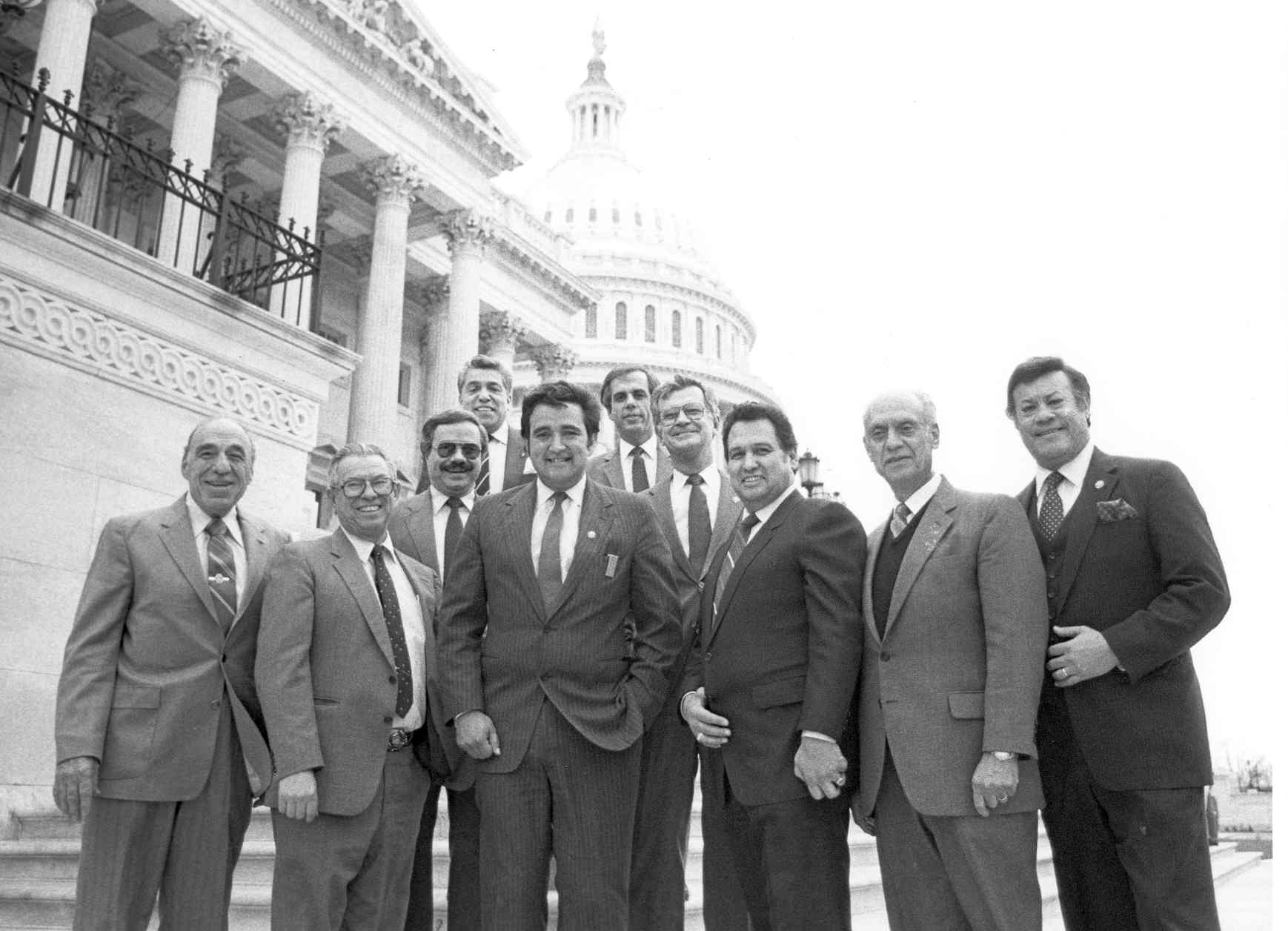 Members of the Congressional Hispanic Caucus, around 1984.